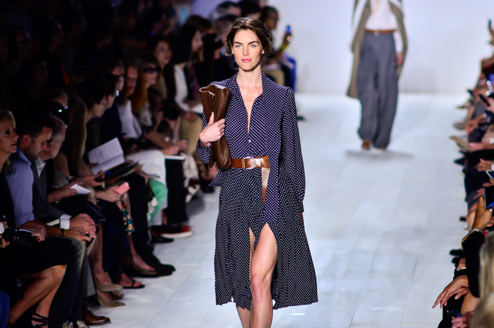 Hilary Rhoda walks the runway at the Michael Kors Spring/Summer 2014 show at New York Fashion Week, September 2013.